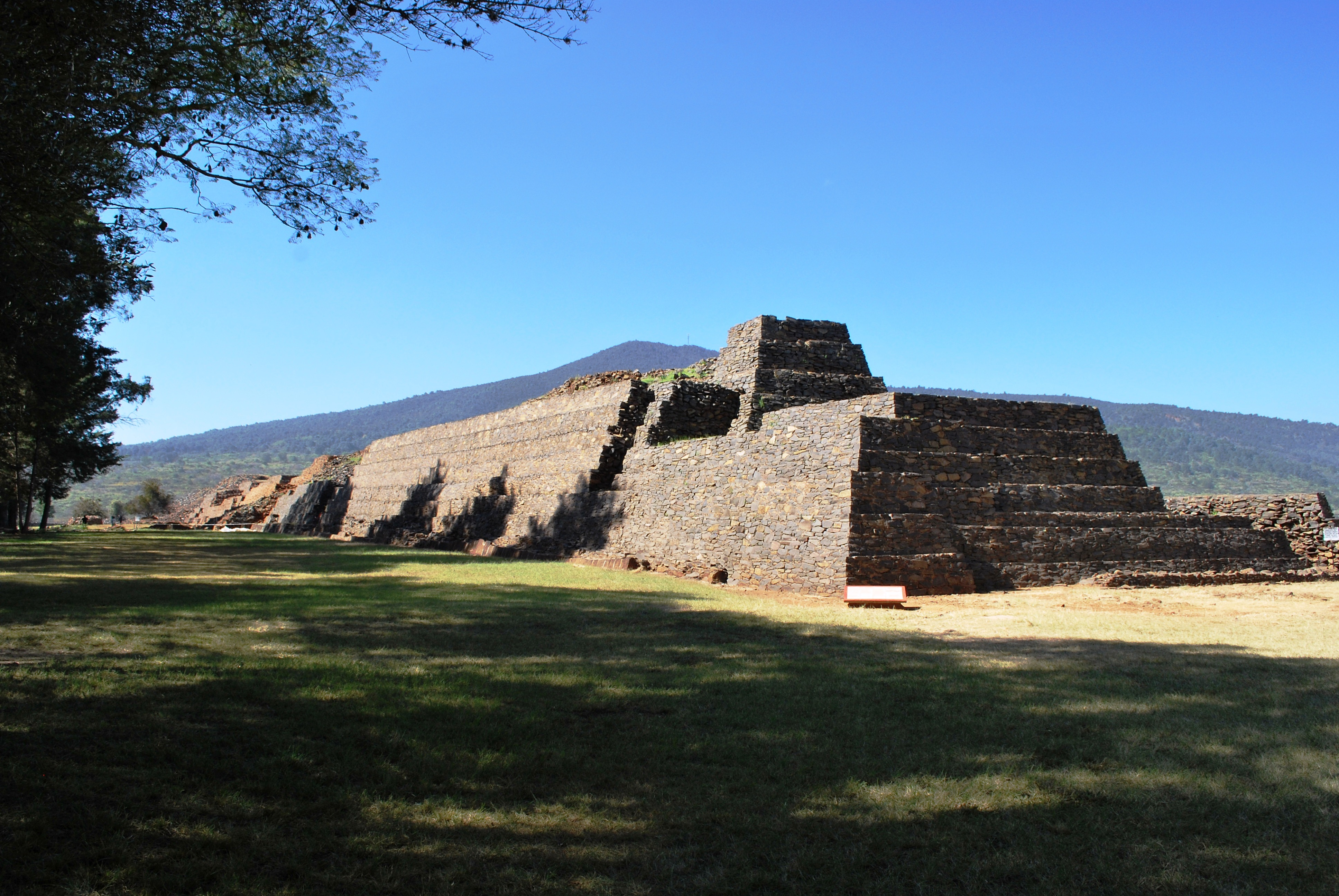 Looking at the connector of the yacata pyramids from the north and back in Tzintzun tzan